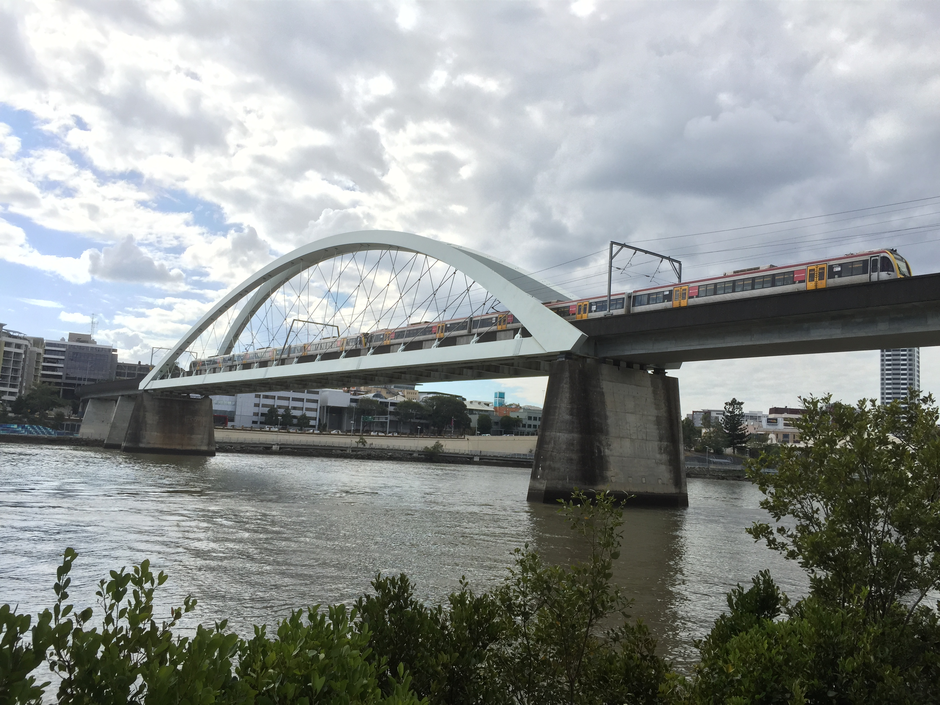 Train crossing the Merivale Bridge seen from South Brisbane, Queensland